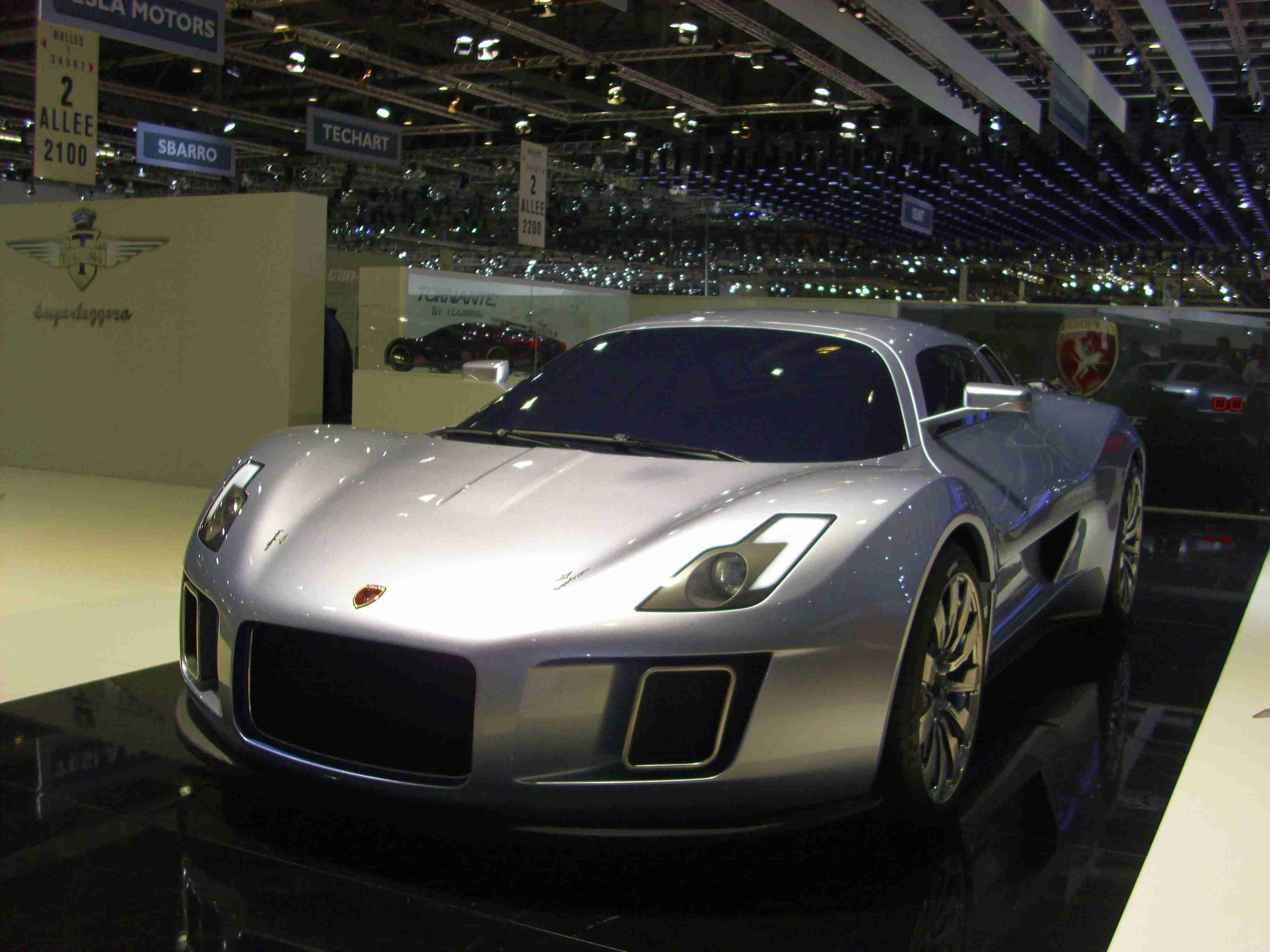 Gumpert Tornante 2011